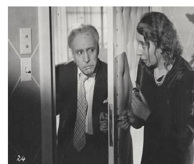 Olimpio Bobbio- actor